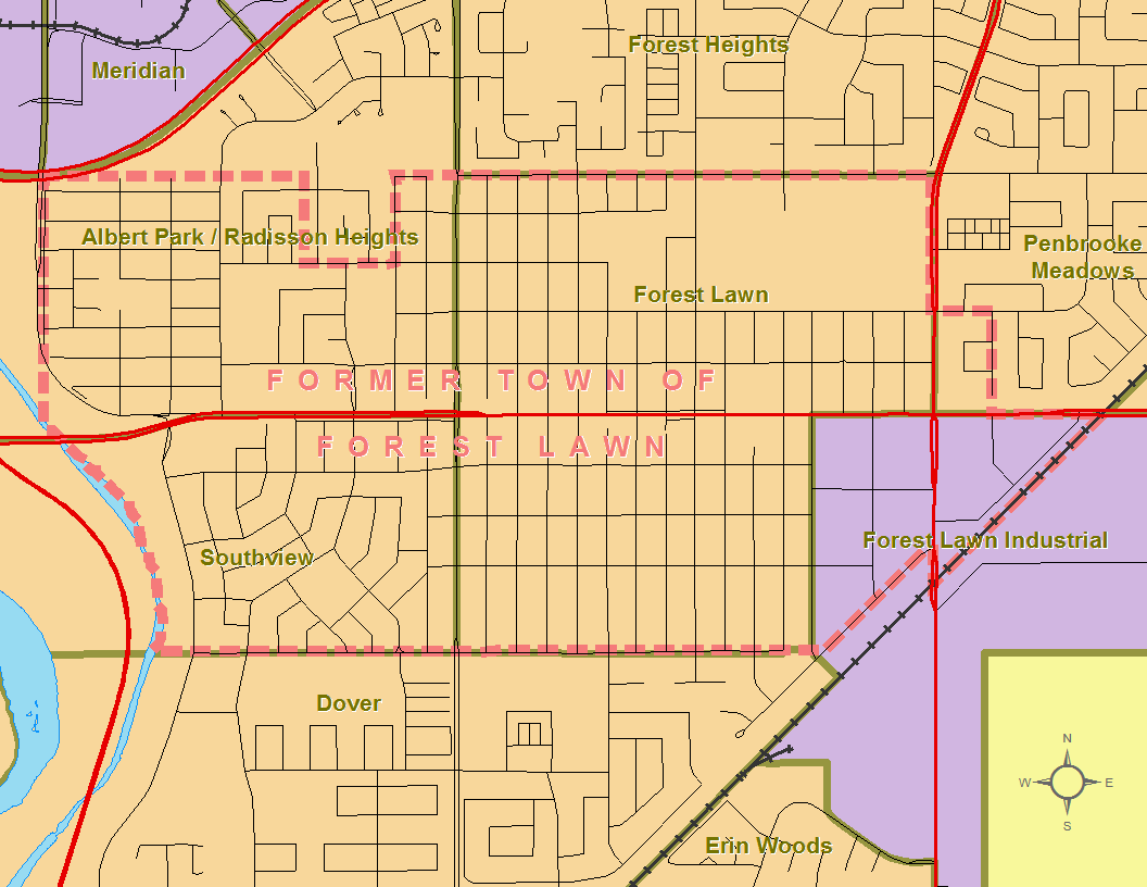 Boundaries of the former Town of Forest Lawn circa 1960 (based on 1960 Alberta official road map's Calgary inset) as compared with current Calgary official neighbourhood boundaries, existing roads and hydrography.